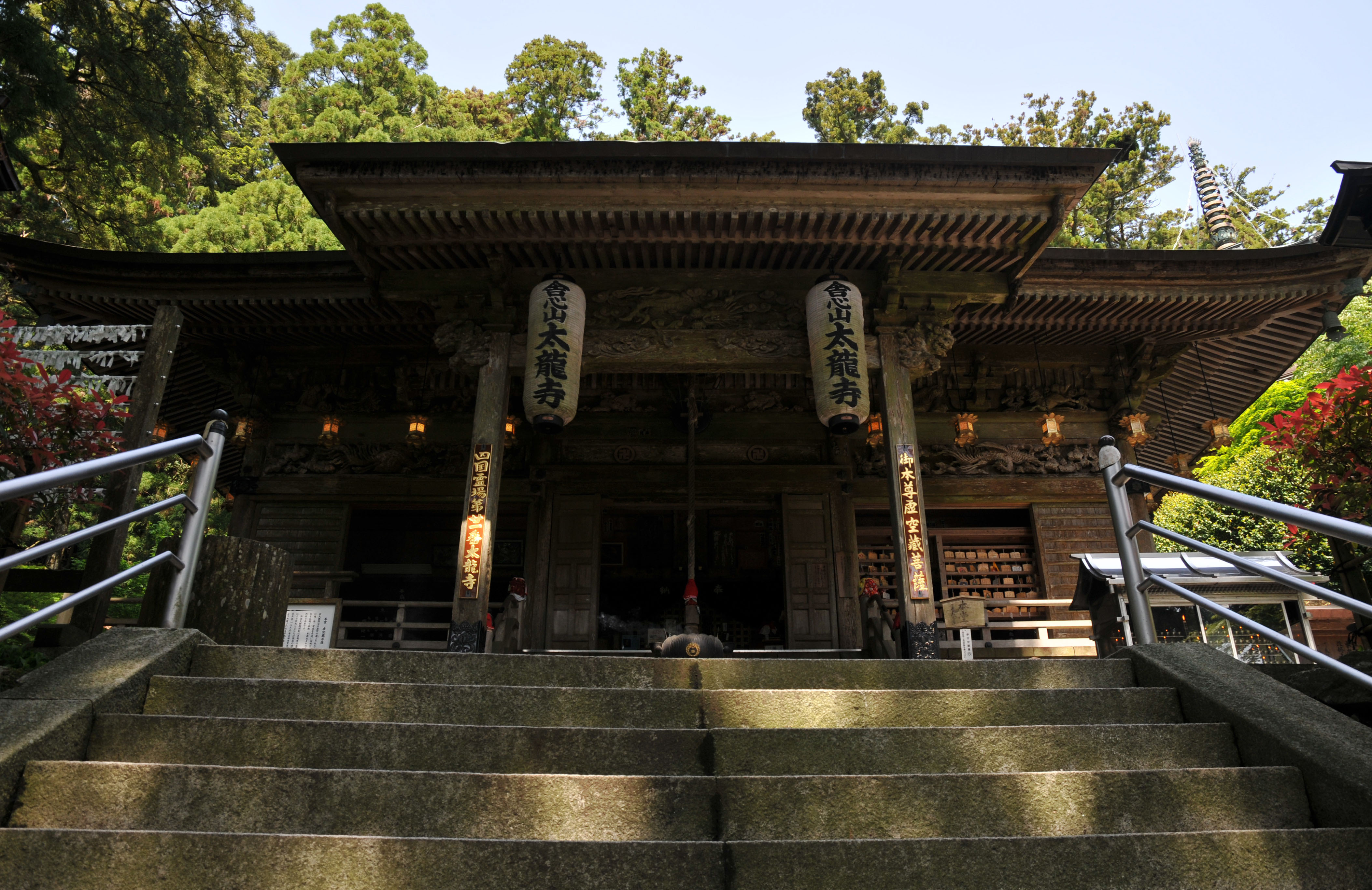 Main temple, Tairyū-ji